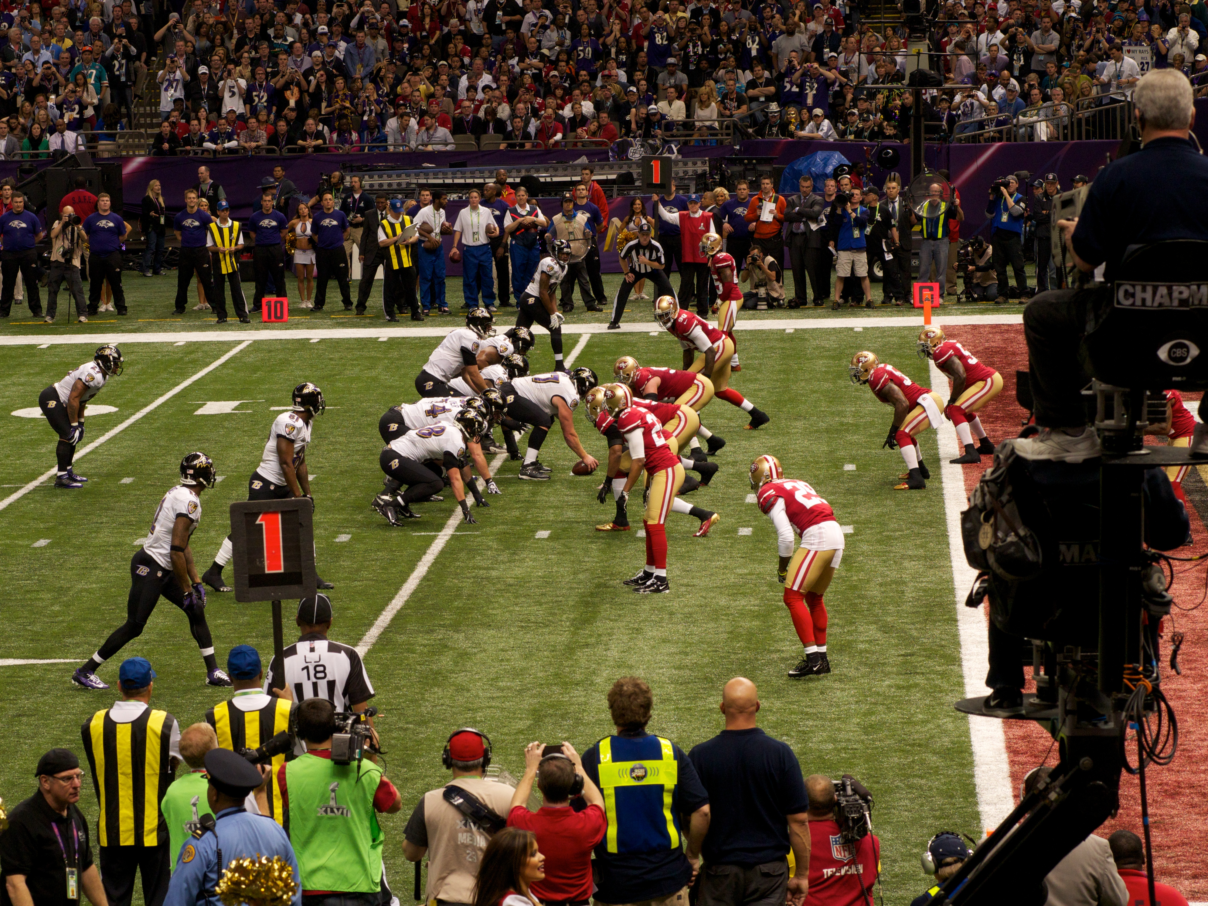 Ravens Goal Line Stand During Super Bowl XLVII This snap resulted in a touchdown pass from Joe Flacco to Dennis Pitta.